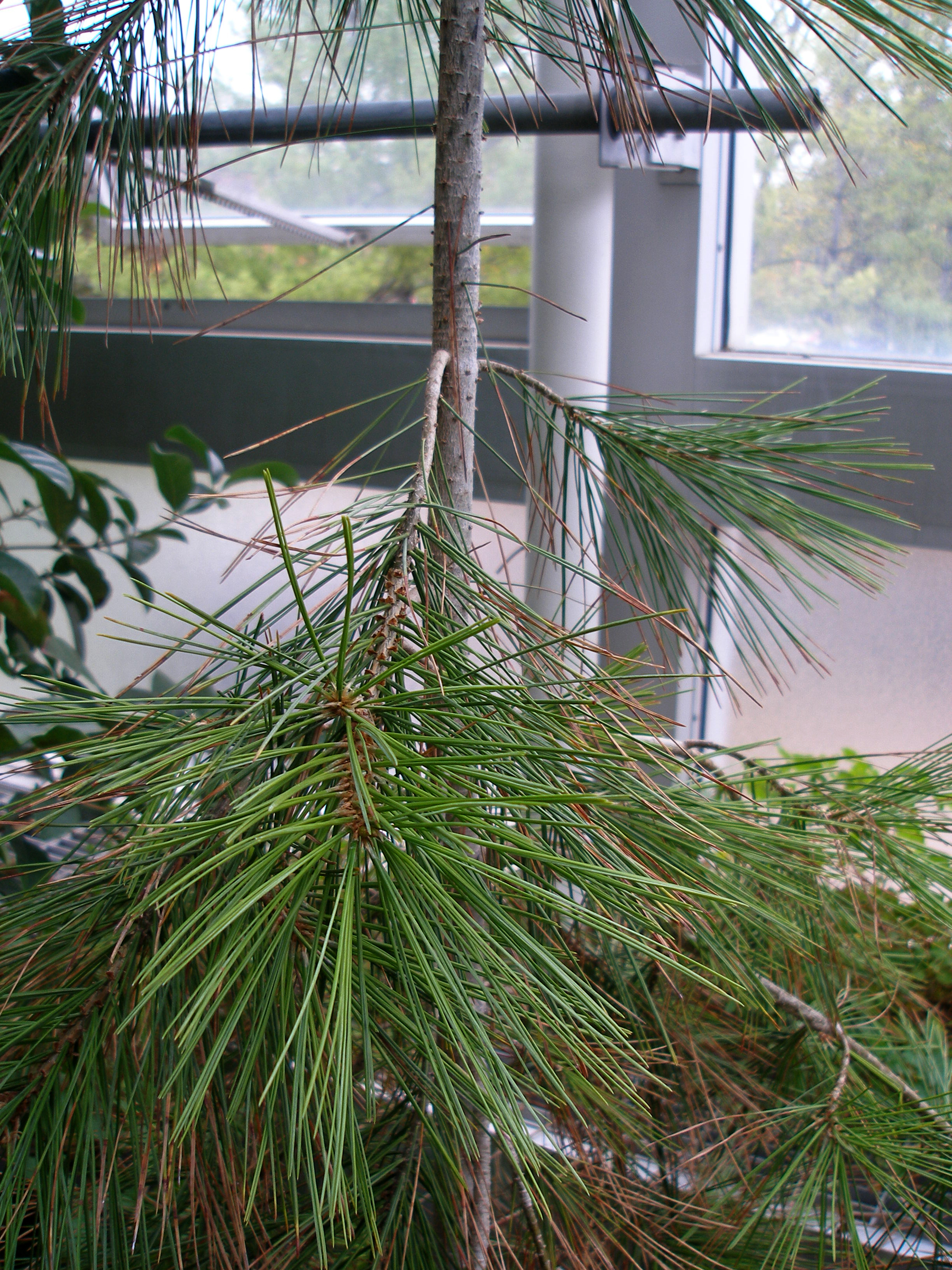 Pinus gerardiana at the Franklin Park Conservatory in Columbus, Ohio, USA